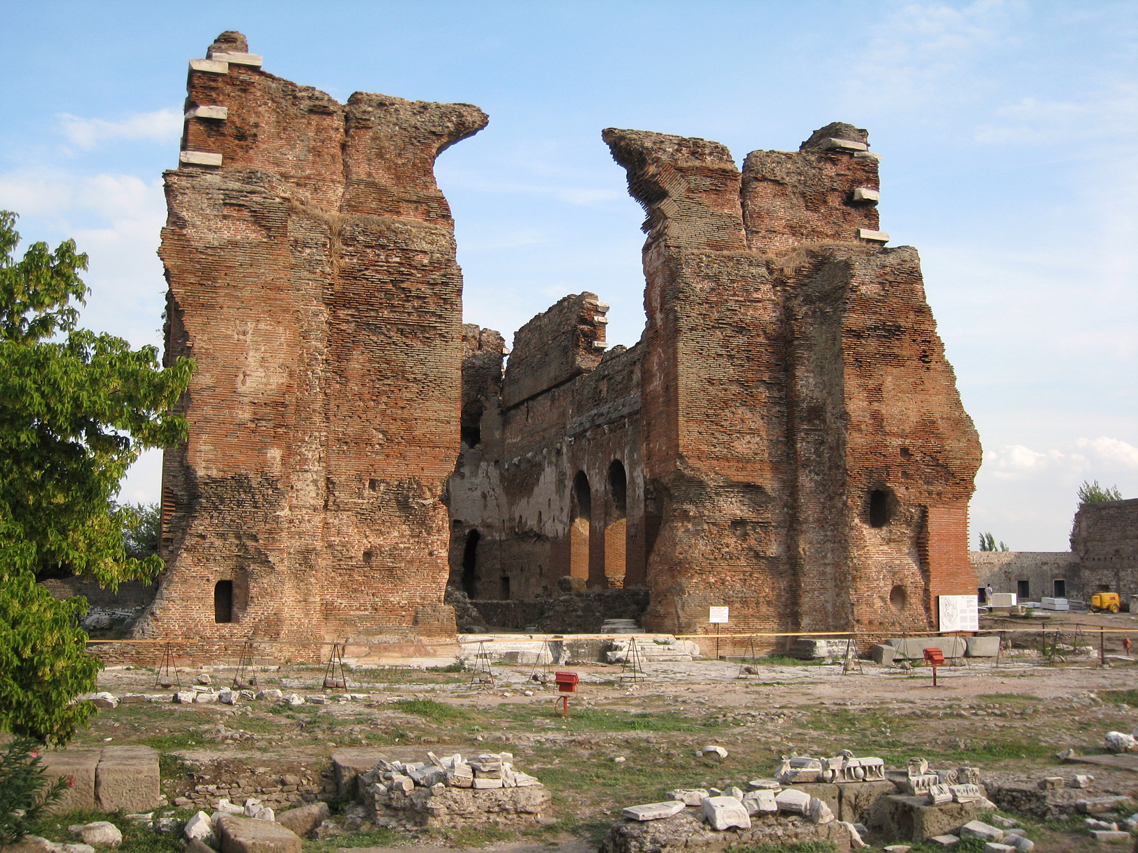 West view of the Red Basilica, Pergamon